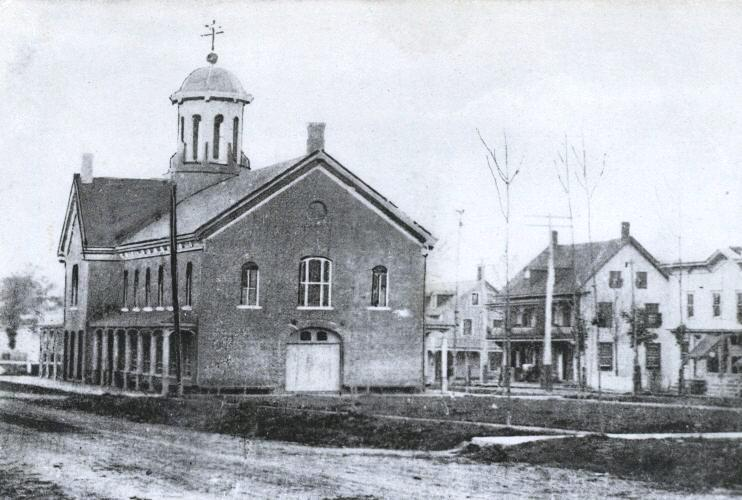 Print (photomechanical), Midie Street and market, Acton Vale, QC, about 1910, Ink on paper mounted on card - Collotype - 9.1 x 13.8 cm